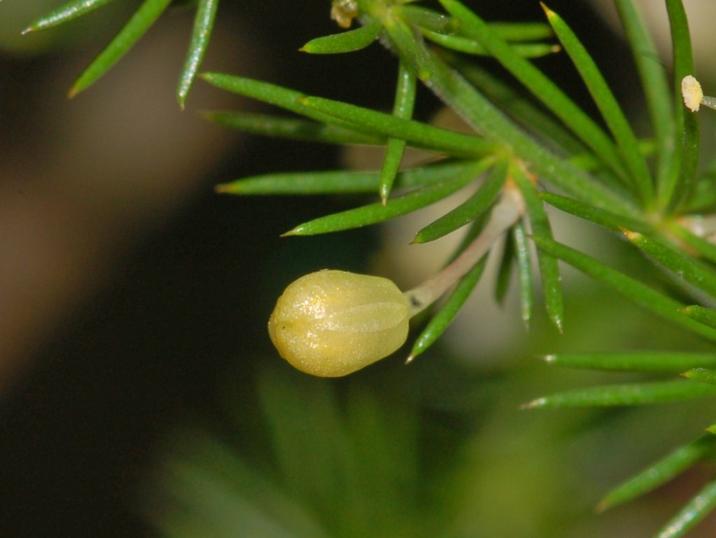 Asparagus acutifolius - Genova, Italy